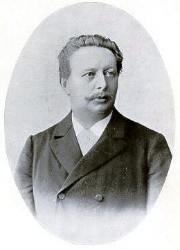 Max Nitze